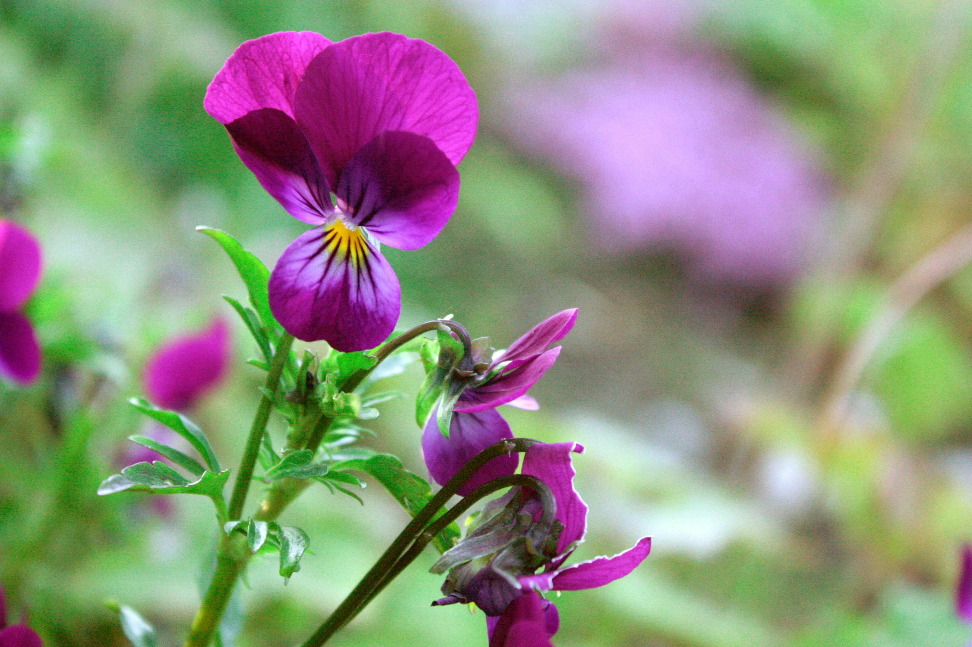 Common Violet